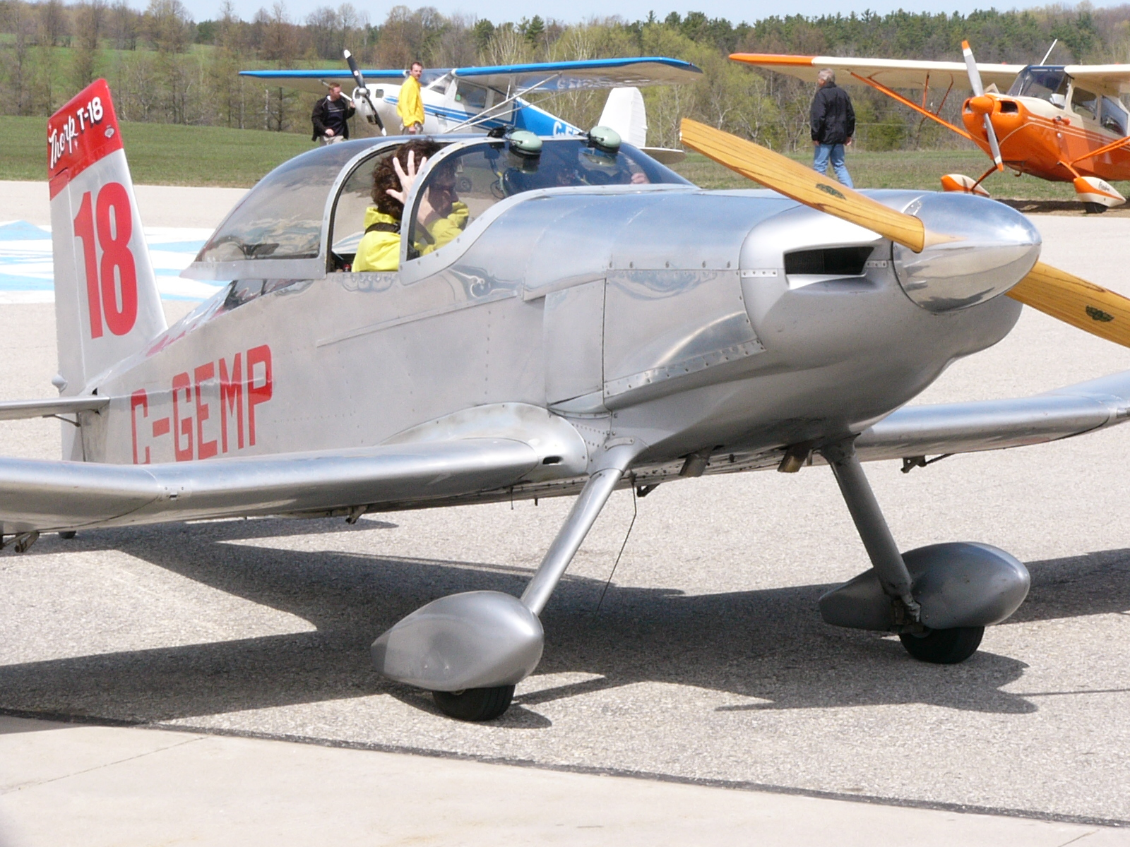 A Thorp T-18 amateur-built aircraft at the Hanover, Ontario Rust Remover